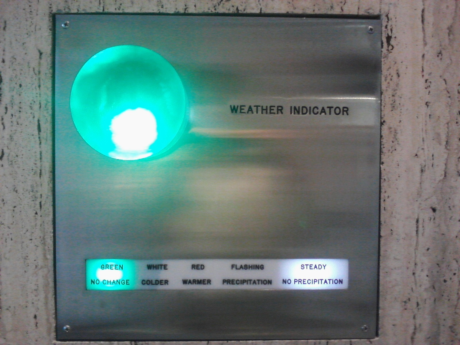 Display panel in lobby of Standard Insurance building in Portland, Oregon, indicating the status of the rooftop weather beacon